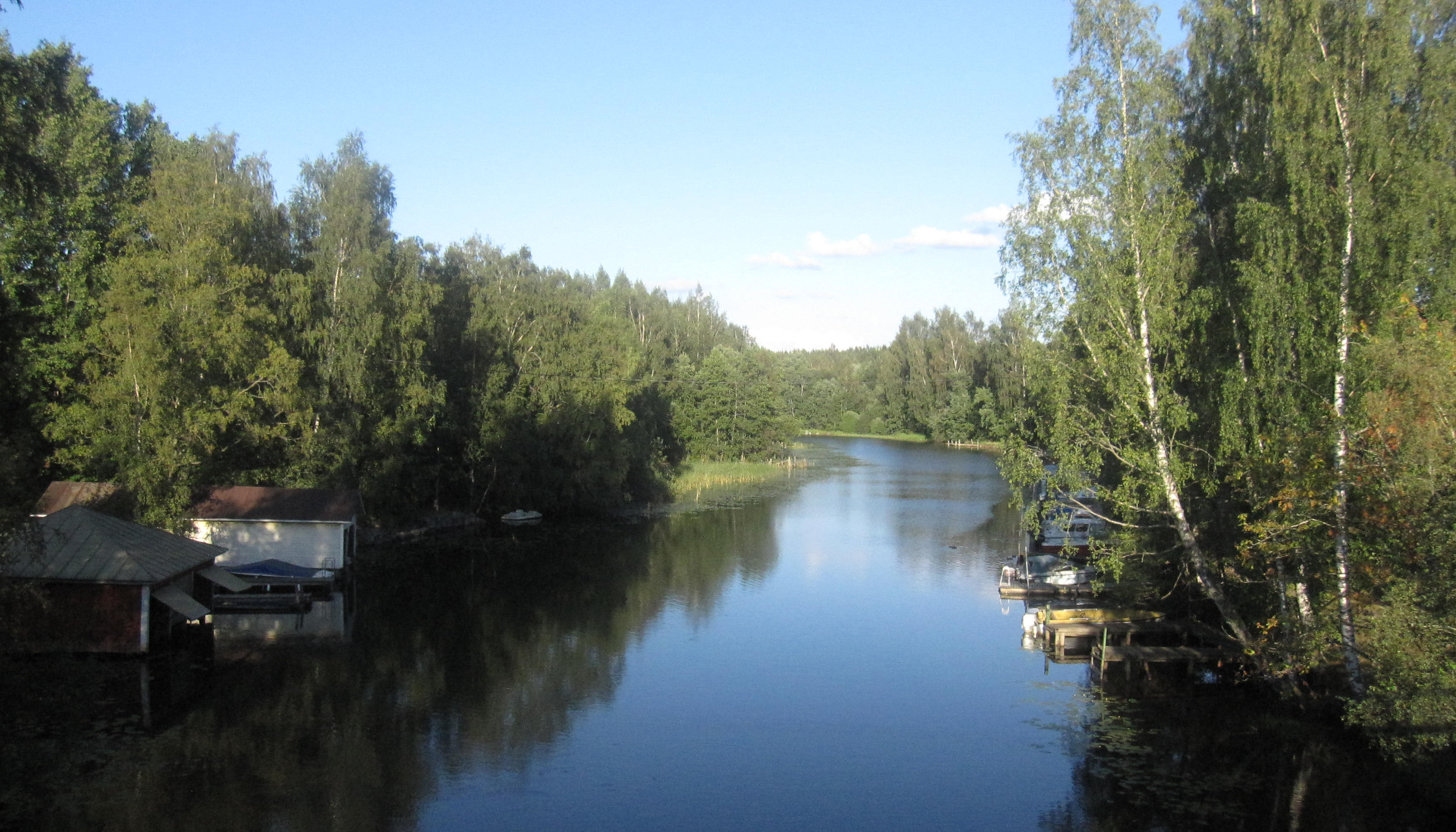 Kostianvirta as seen towards east from the bridge of Onkkaalantie.